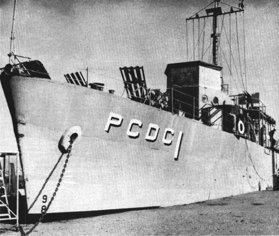 The U.S. Navy stationary training ship USS Pandemonium (PCDC-1) at Naval Station Treasure Island, California (USA). Pandemonium was built on Treasure Island by the Atomic-Biological-Chemical Defense Section ot the U.S. Naval School Command to train crews in ABC-warfare. It resembled a submarine chaser (PC) and was 52.3 m long with a beam of 7.3 m. Pandemonium was christened on 1 February 1957. Radioactive materials were placed on the land-locked ship in order to train crews in radioactive detection and cleanup. The Pandemonium remained in use until July 1969. It was moved from its original site and then demolished in 1996.